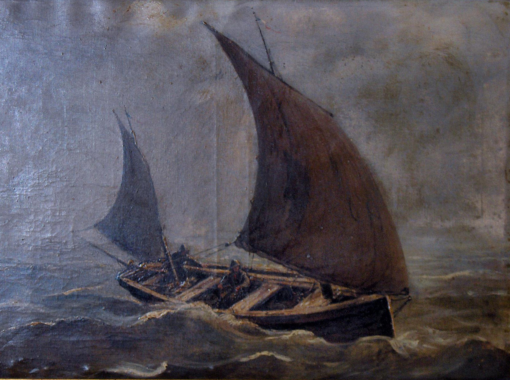 Seascape with smack